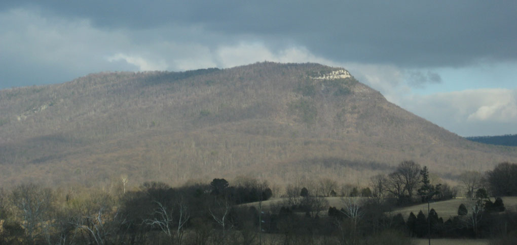 Photo of the southwest end of Short Mountain, Shenandoah County, Virginia, also known as "The Knob". Facing east from VA Rt 730 (Moreland Gap Road), Feb. 2009.